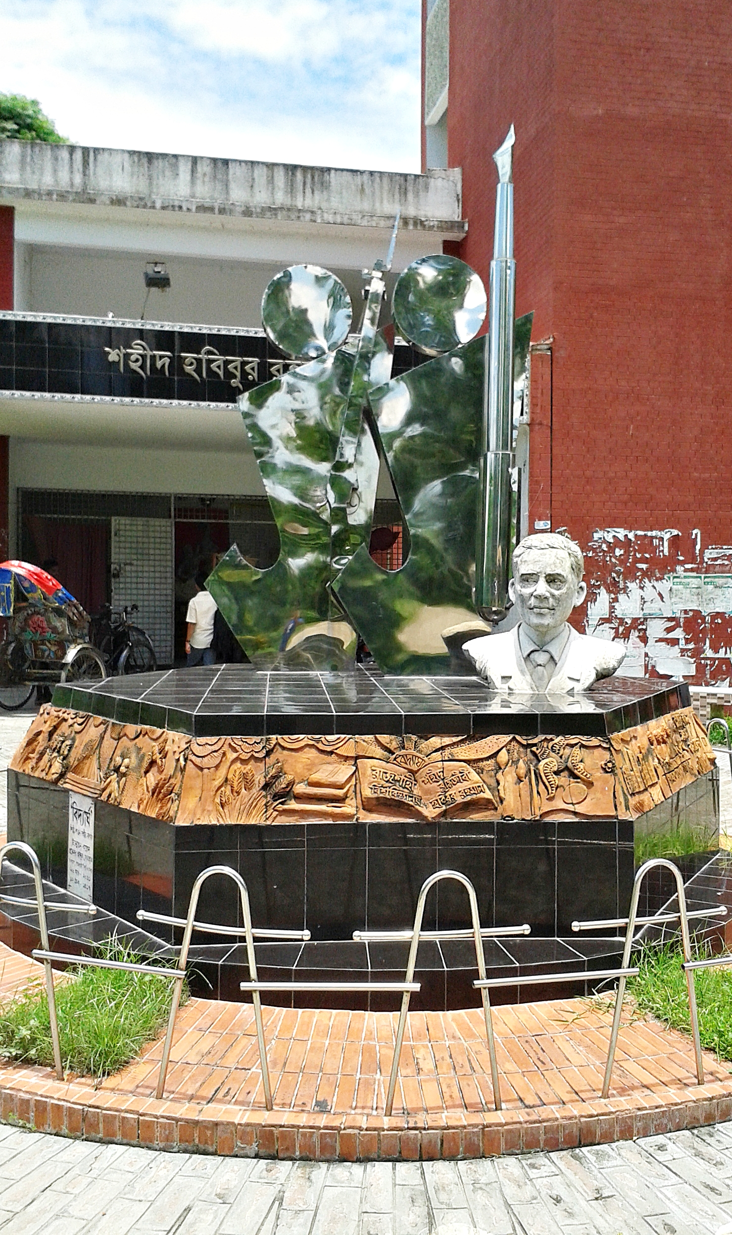 "Bidargho" sculpture is built in memory of the freedom fighters of Bangladesh, which is situated in University of Rajshahi